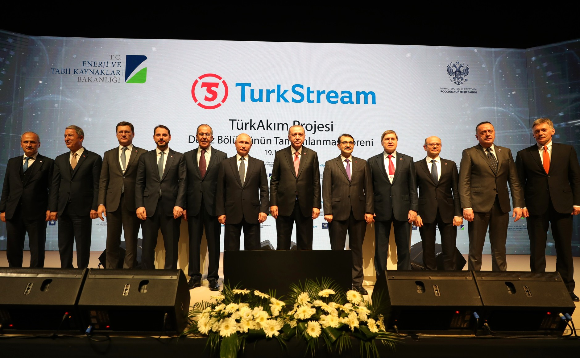 Russian President Vladimir Putin and President of Turkey Recep Tayyip Erdoğan took part in a ceremony marking the completion of TurkStream gas pipeline’s offshore section, Istanbul, Turkey.